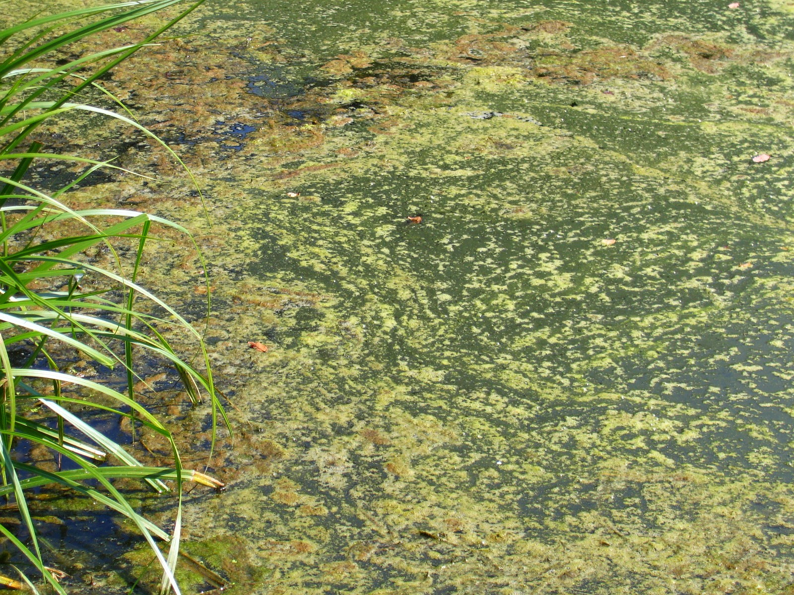 Algal bloom effect in smaller pond in Sołtysowicki Forest, Wrocław, Poland.